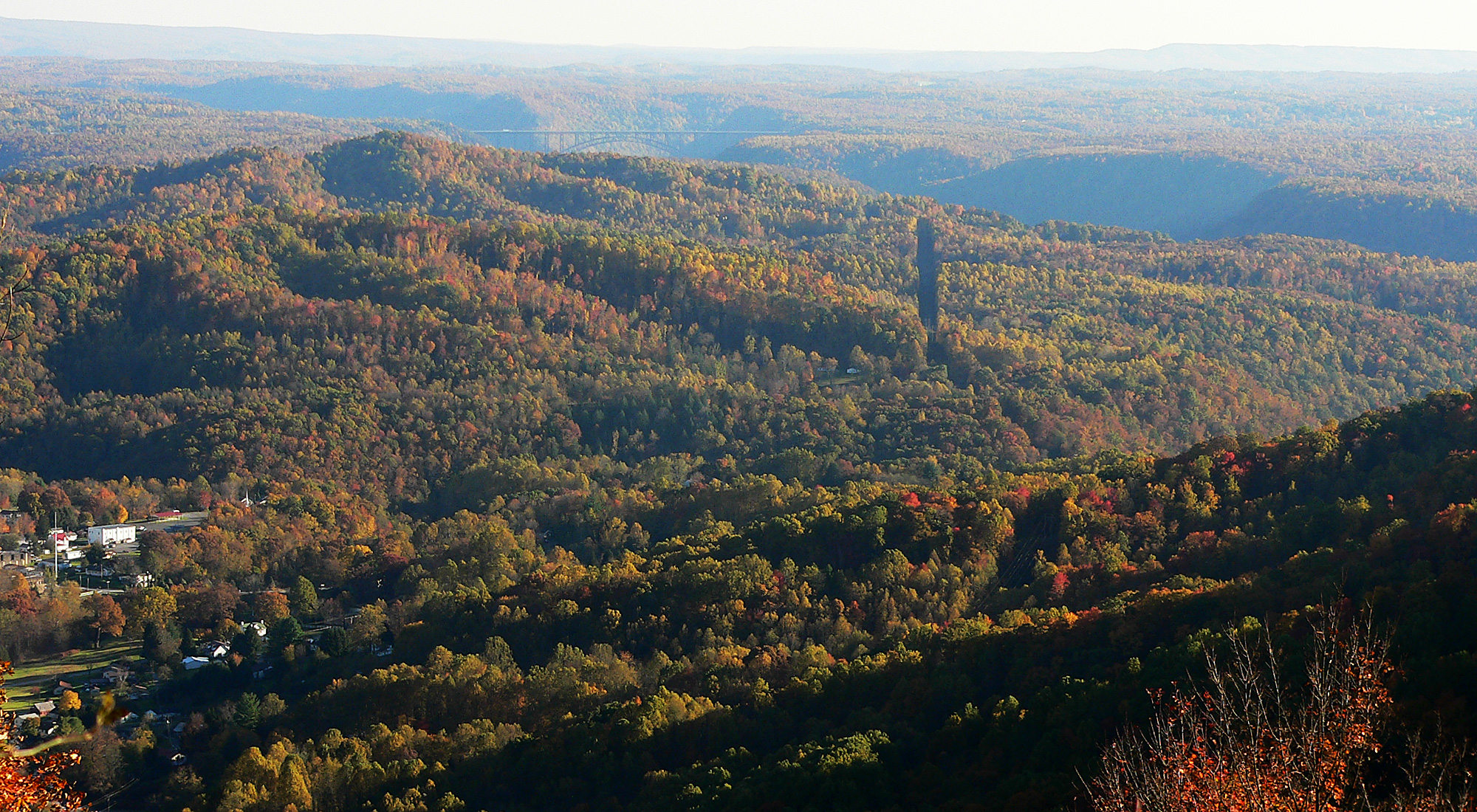 View from the top of Gauley Mountain, looking over the town of Ansted towards the New River Gorge and the New River Gorge Bridge, nearly six miles away.Photo taken with a Panasonic Lumix DMC-FZ50.